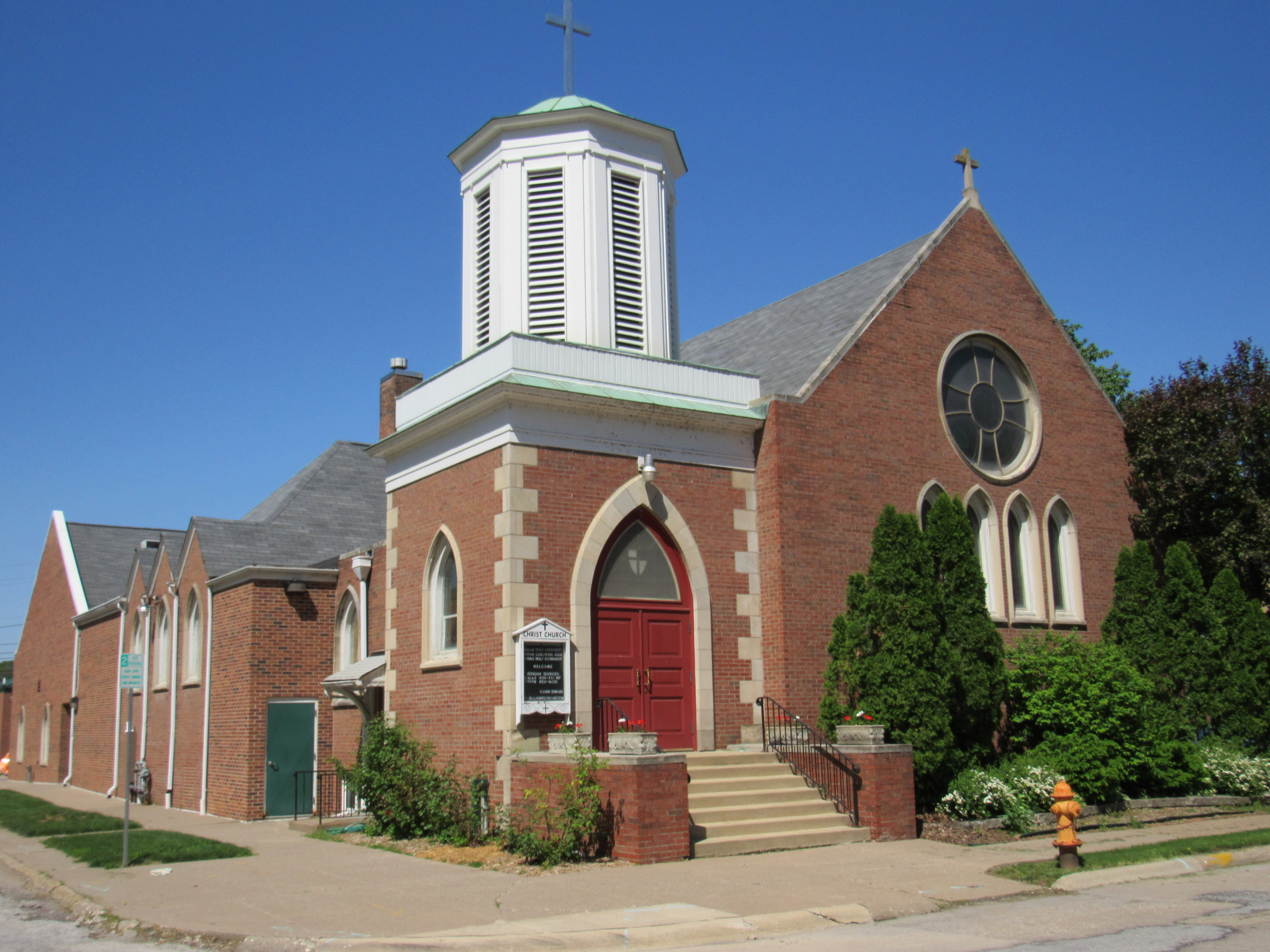 Christ Church (Anglican) in Moline, Illinois.